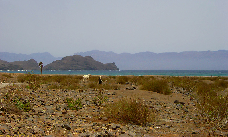 Near Salamansa, São Vicente Island, Cape Verde, 2006.